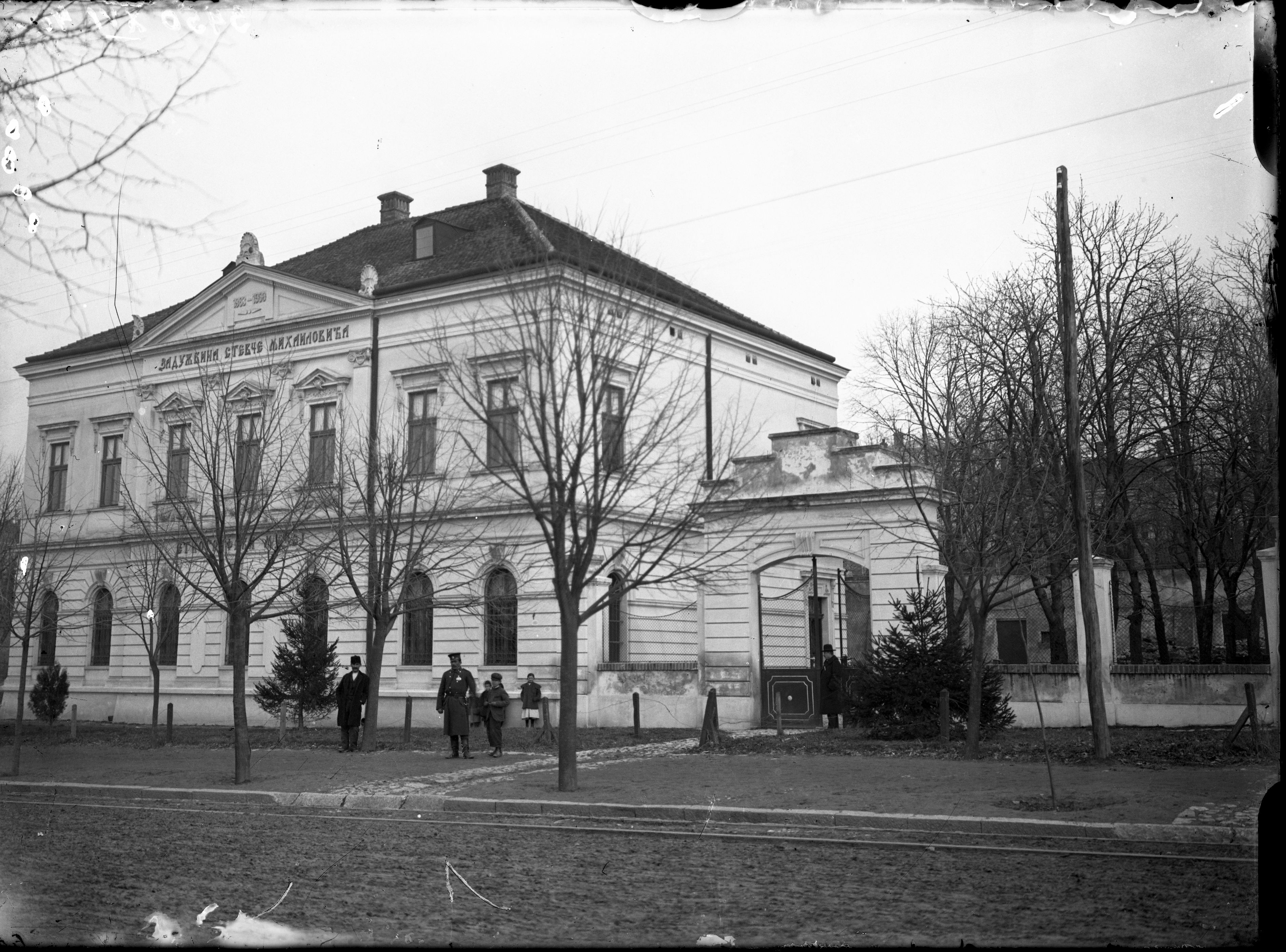 First building of Ethnographic museum in Belgrade